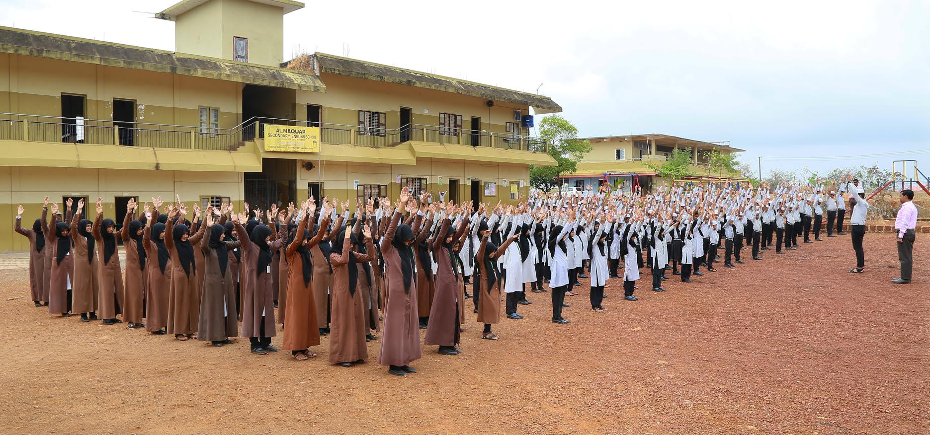 International Day of Happiness program conducted at Al-Maqar English Medium School Campus.